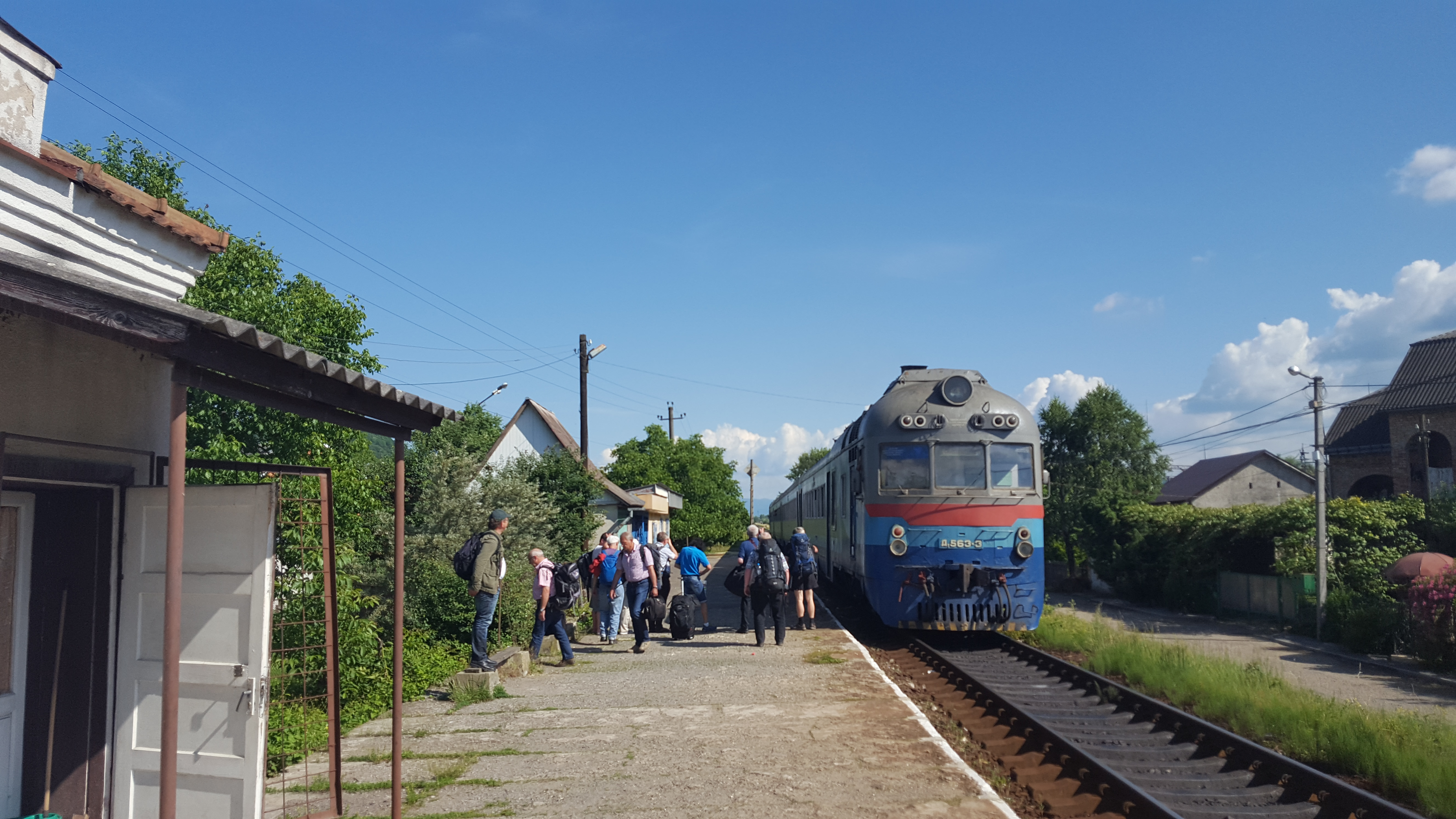 Diesel railcar Д 563-3 at a train stop "Khust-West" (ПЛ. ХУСТ(ЗП)) in Ukraine.